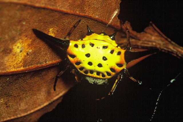 Gasteracantha dalyi Pocock, 1900 from Wayanad, southern India.